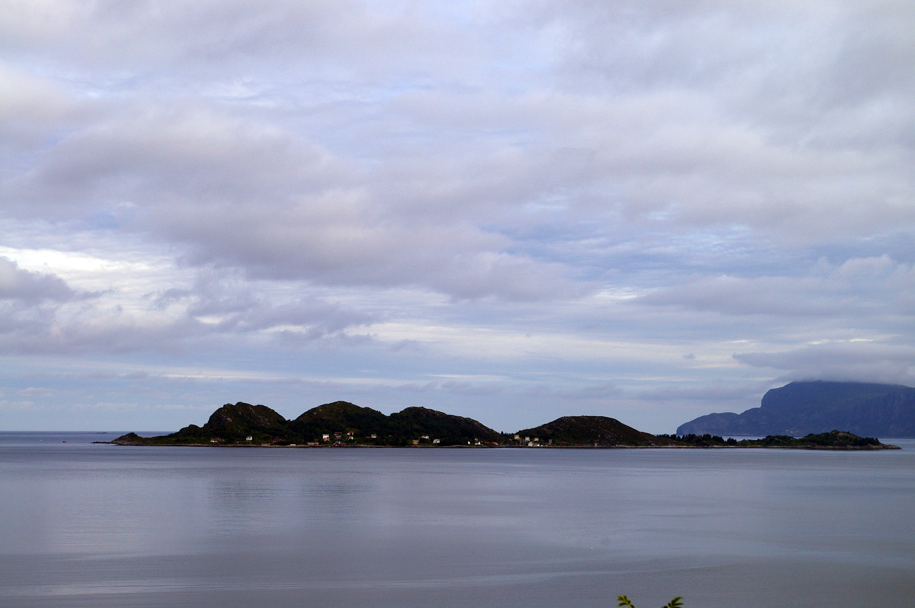 Silda Island in Vågsøy, Sogn og Fjordane, Norway.